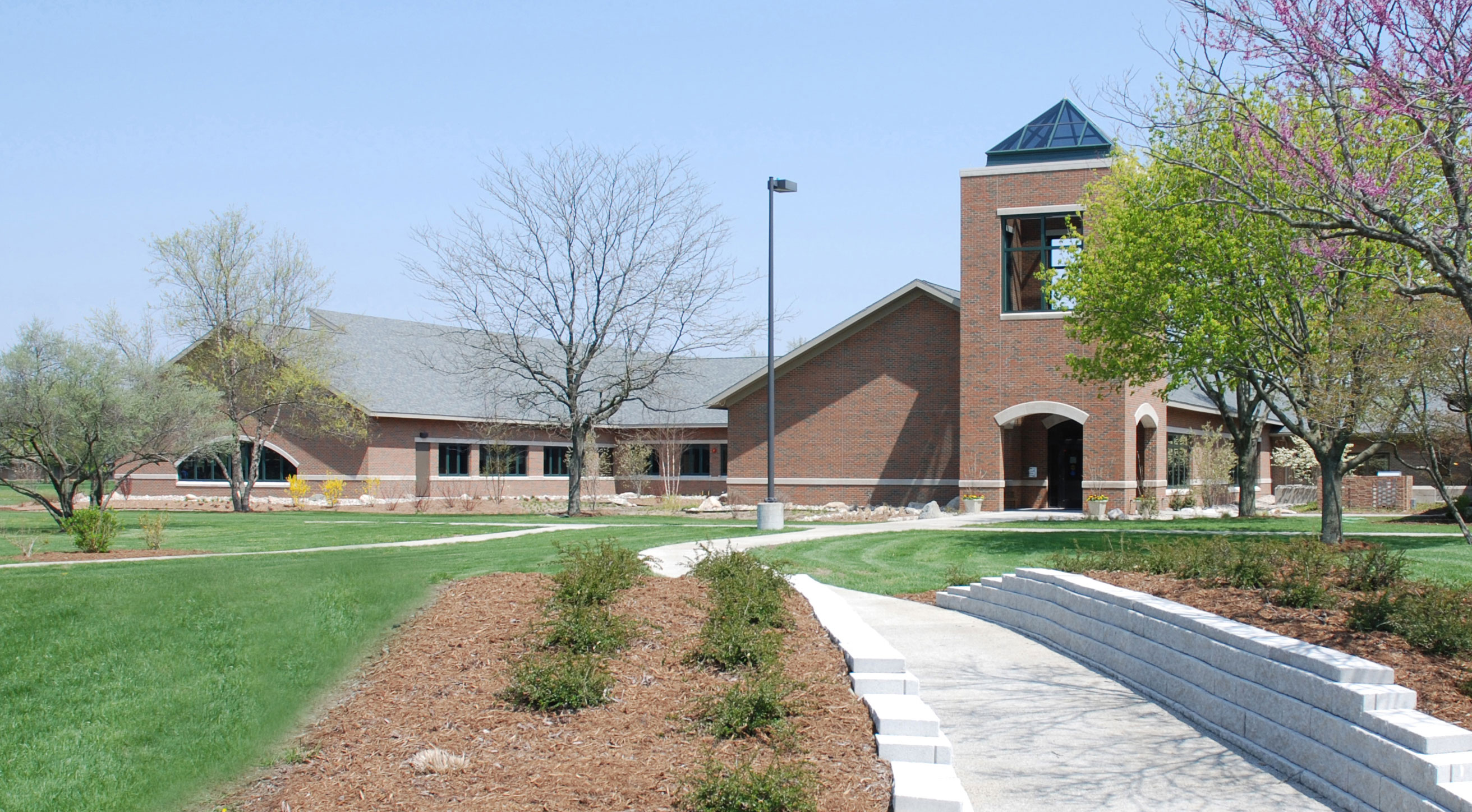 The library and bookstore building of Associated Mennonite Biblical Seminary, 3003 Benham Avenue, Elkhart, Indiana